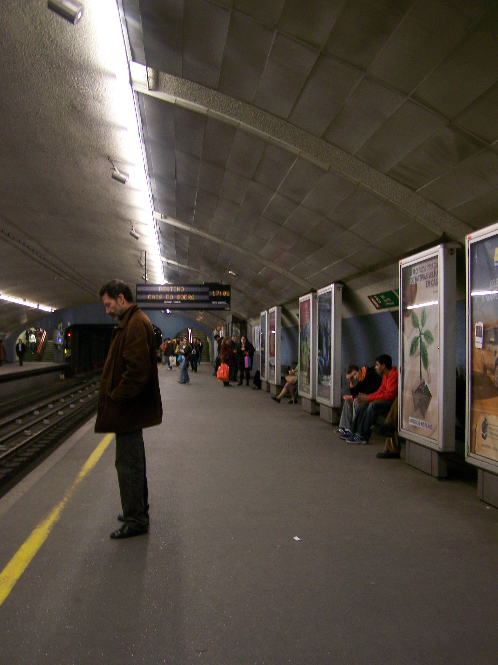 A man is waiting at Arroios station, linha verde